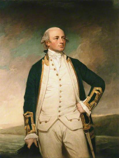 Captain William Peere William